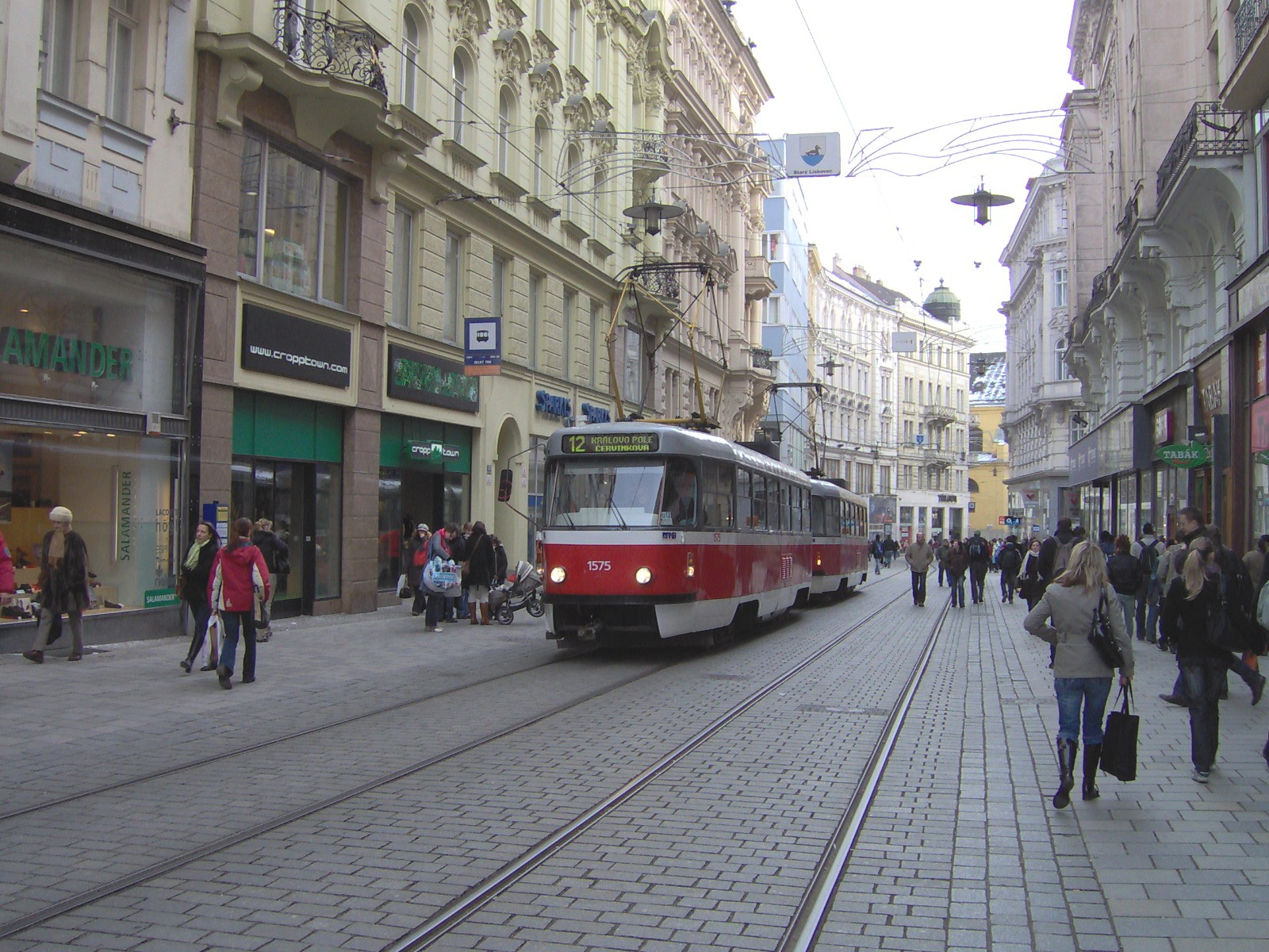 Tram track in Masaryk street, Brno, Czech Republic